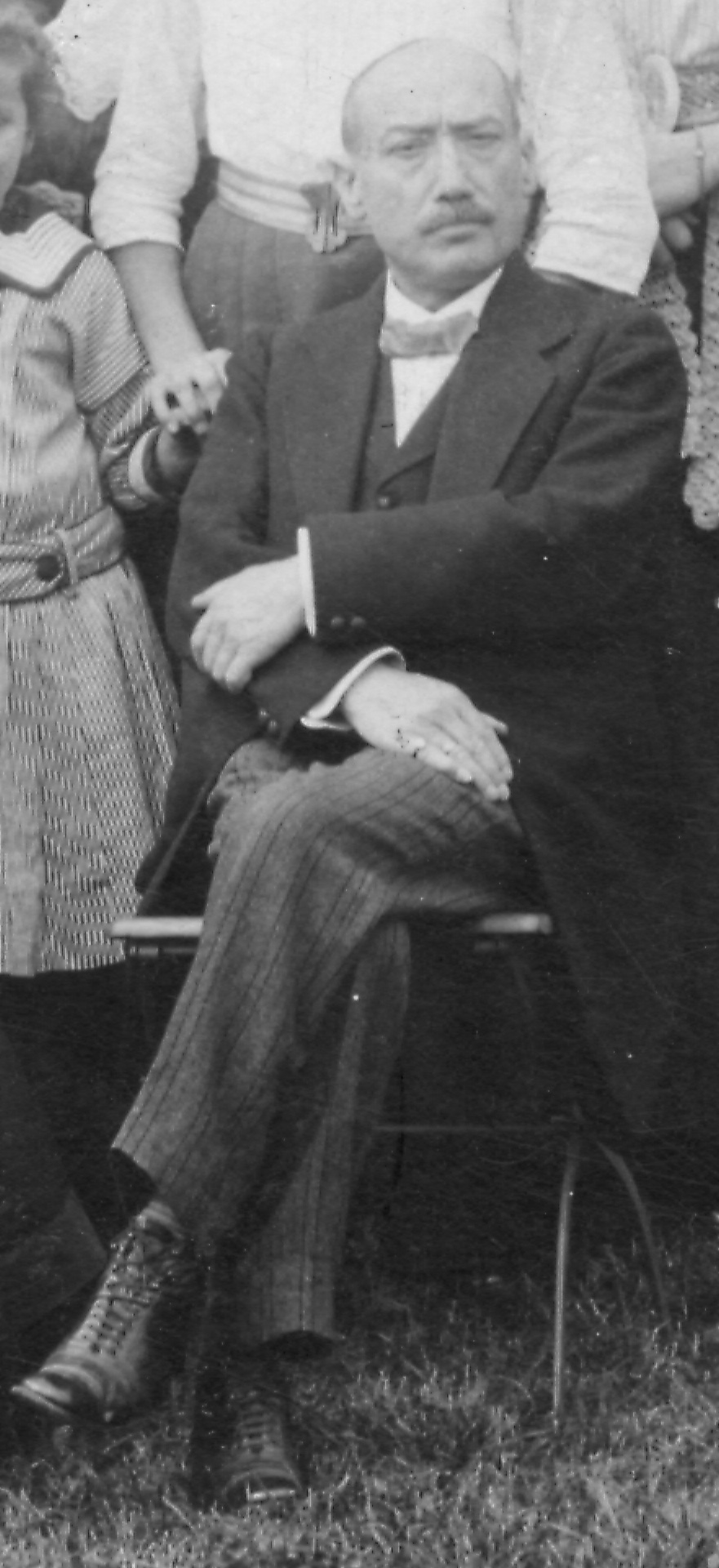 Dr. med. Georg Hauffe (1872-1936)